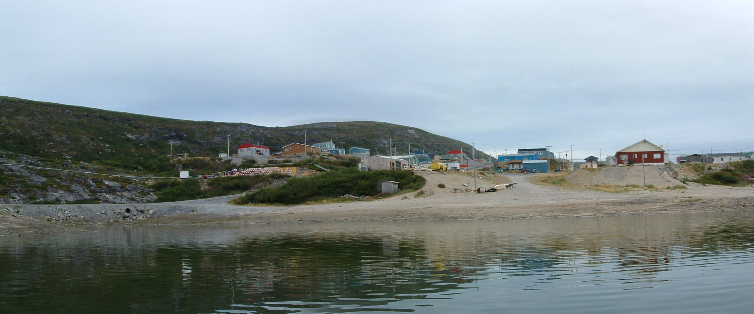 Kangiqsualujjuaq